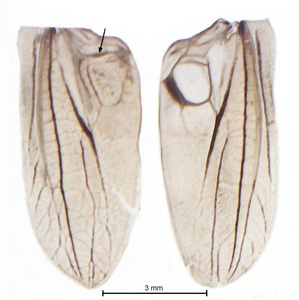 Metrioptera roeselii, left and right forewing of an adult male